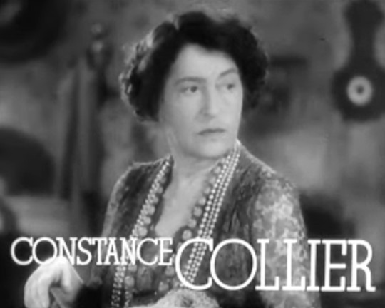 Screenshot of Constance Collier from the trailer for the film Stage Door (1937).